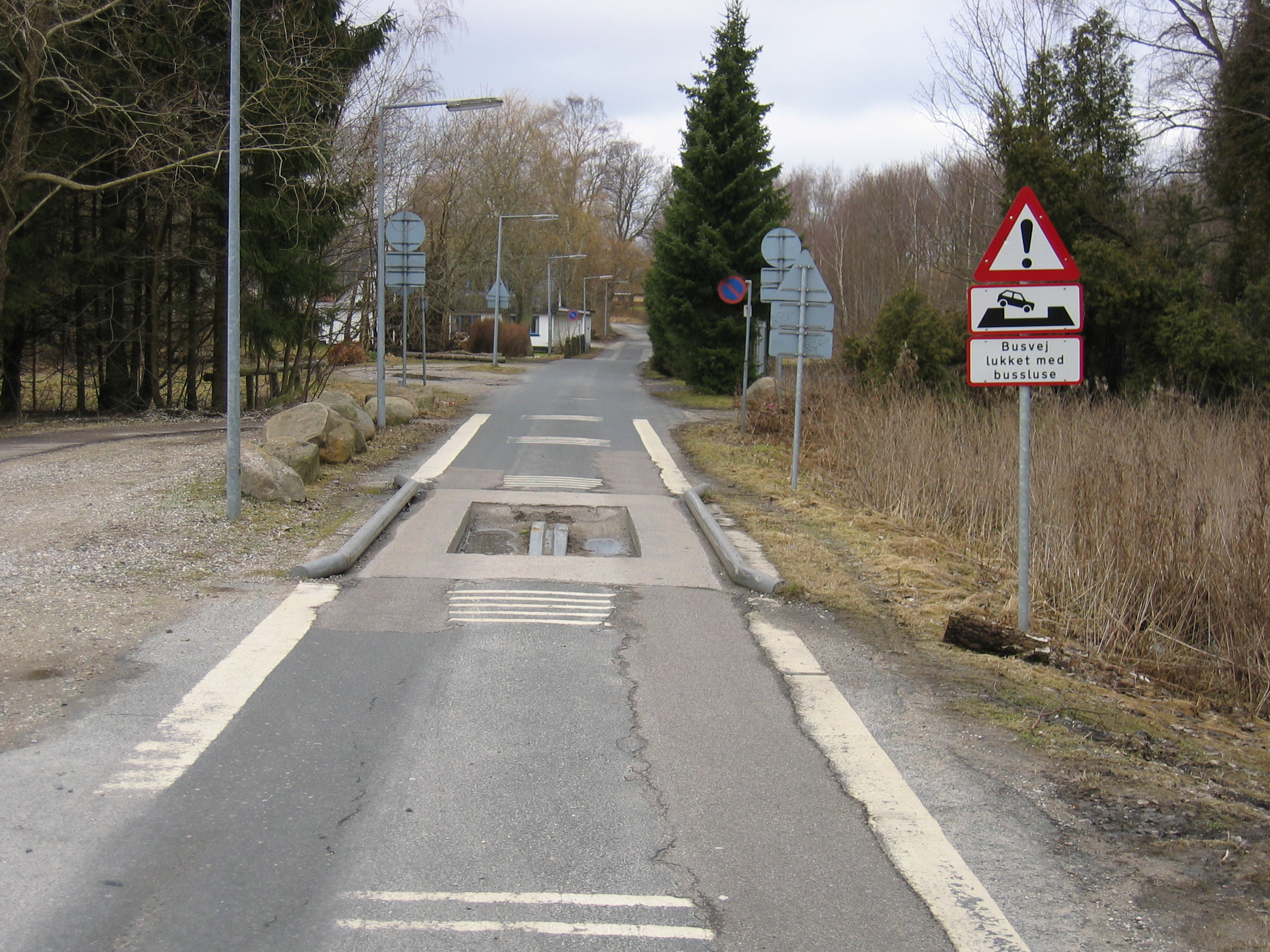 Bus sluice at Hillerød, Denmark